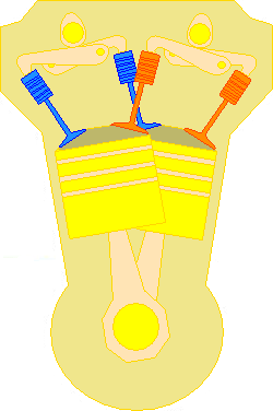 Schematic view of inlet (blue) and exhaust (red) valves on the Volkswagen Group 24valve VR6 engine